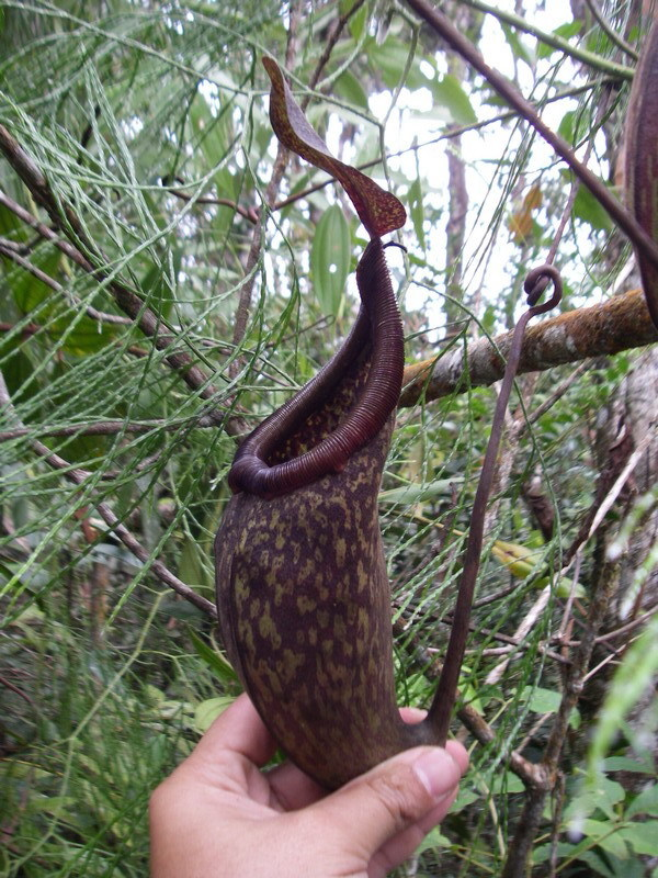 Nepenthes rigidifolia 1,600 m